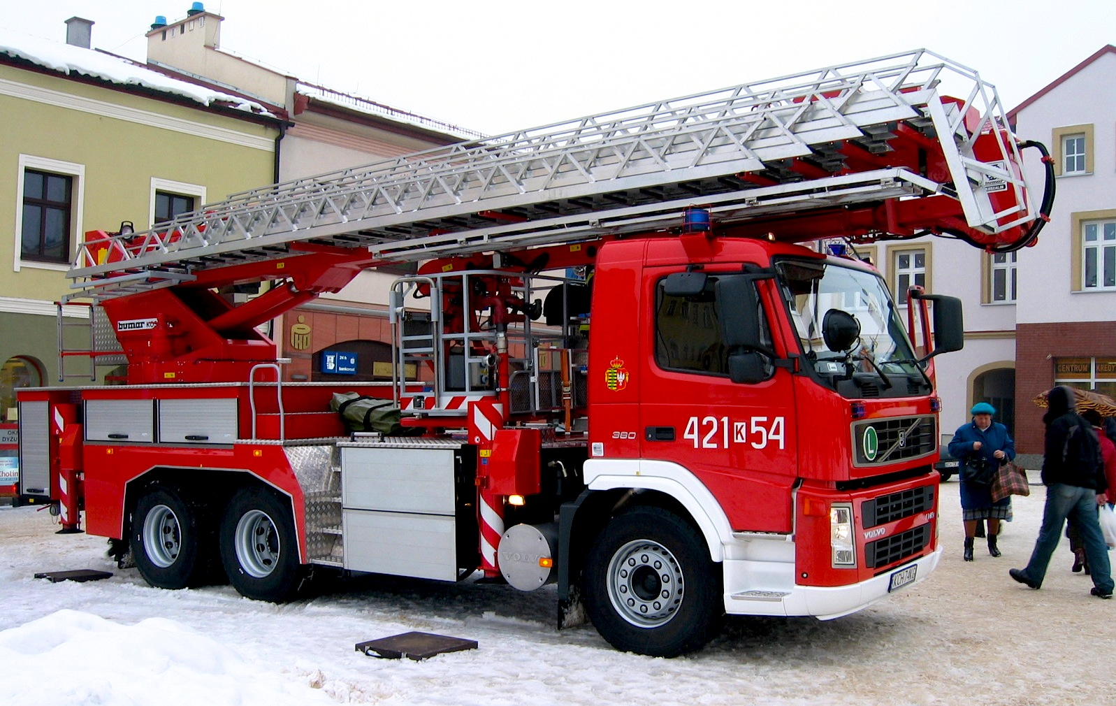 A Volvo fire engine of the Chrzanów Fire Brigade